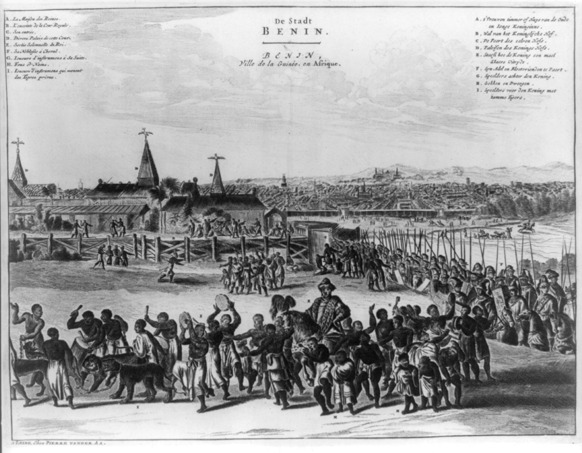 Shows a number of features in Benin City: in the background (A) the house of the queens; on the left (B), the royal courtyard, containing several palaces, showing their spires (D). The king is depicted in the center (E) mounted on a horse with his mounted nobles in procession on the right (F). The king is surrounded by dwarfs (H), and leading the procession on the left are the musicians who are also holding the royal tigers (I). For a discussion of the authenticity of the architectural details in this engraving (first published in the Flemish edition, 1668), see Susan Denyer, African Traditional Architecture (New York, 1978), p. 82. In an informed discussion of Dapper as an historical source, Adam Jones writes "there is virtually no evidence" that Dapper "took much interest in what sort of visual material was to accompany his text," and that it was the publisher, Van Meurs, "who probably did all the engraving himself." With respect to the plates, in particular, Jones concludes: "For those interested in seventeenth-century black Africa rather than in the history of European perceptions, few of the plates showing human beings and artefacts are of any value . . . . [and] originated solely from Van Meurs' imagination" (Decompiling Dapper: A Preliminary Search for Evidence (History in Africa [1990], vol. 17, pp. 187-190).